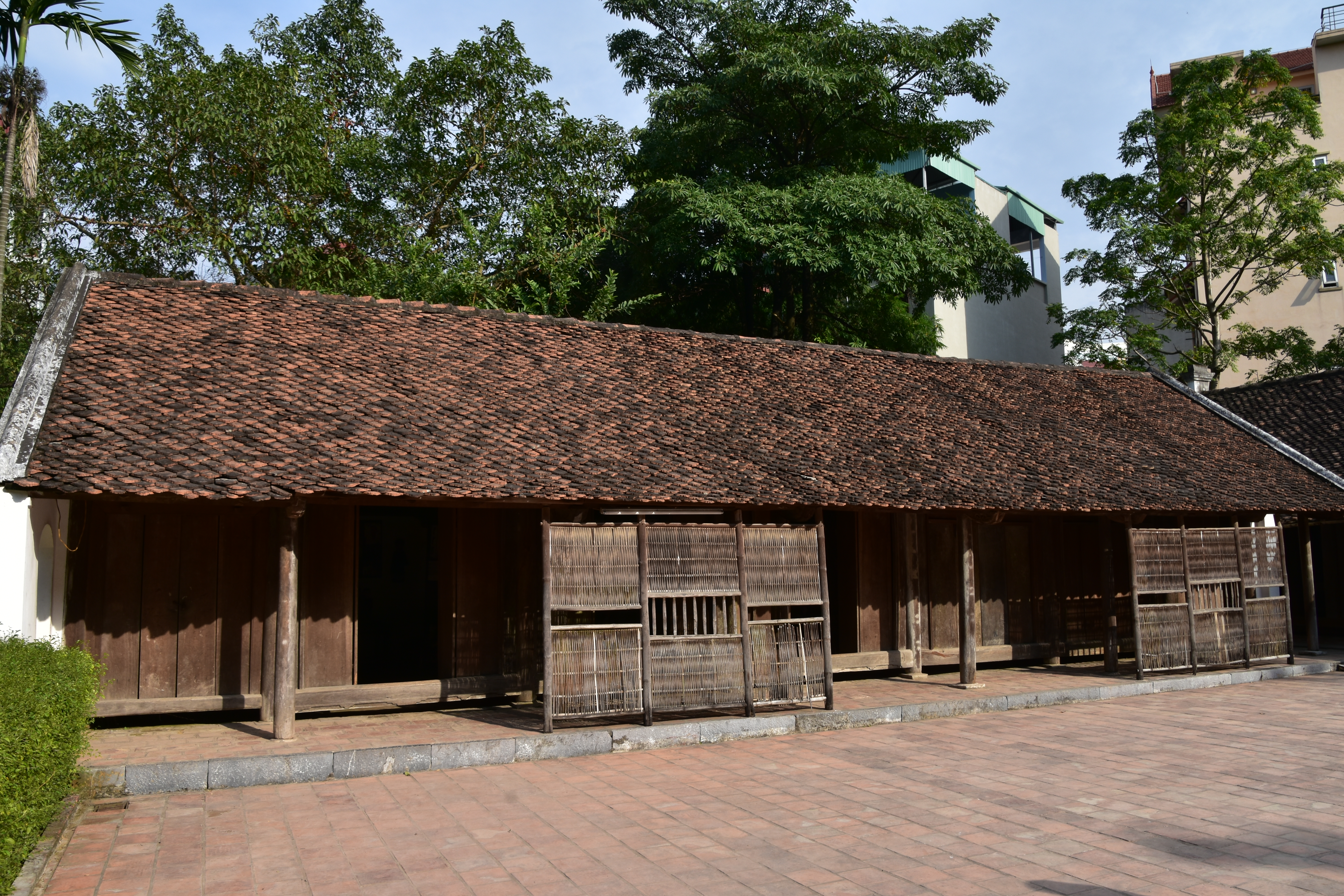 Traditional Hanoi dwelling, Museum of Ethnology, Hanoi (1)